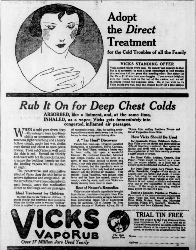 Newspaper ad for Vicks VapoRub, a topical cream used on the chest and throat for cough suppression due to the common cold. The ad includes a mail-in coupon to obtain a free sample. On page 7 of the March 1, 1922 Duluth Herald. This Vicks Vaporub is nowhere near as strong as it was in the 1940s. This new formula only lasts for about an hour and is totally useless and overpriced. Get the old ingredients and compare. I know. I'm 72 and remember that it could put you to sleep. When proctor and Gamble bought it out in 1980, they devalued the product by reducing the ingredients that made it work.